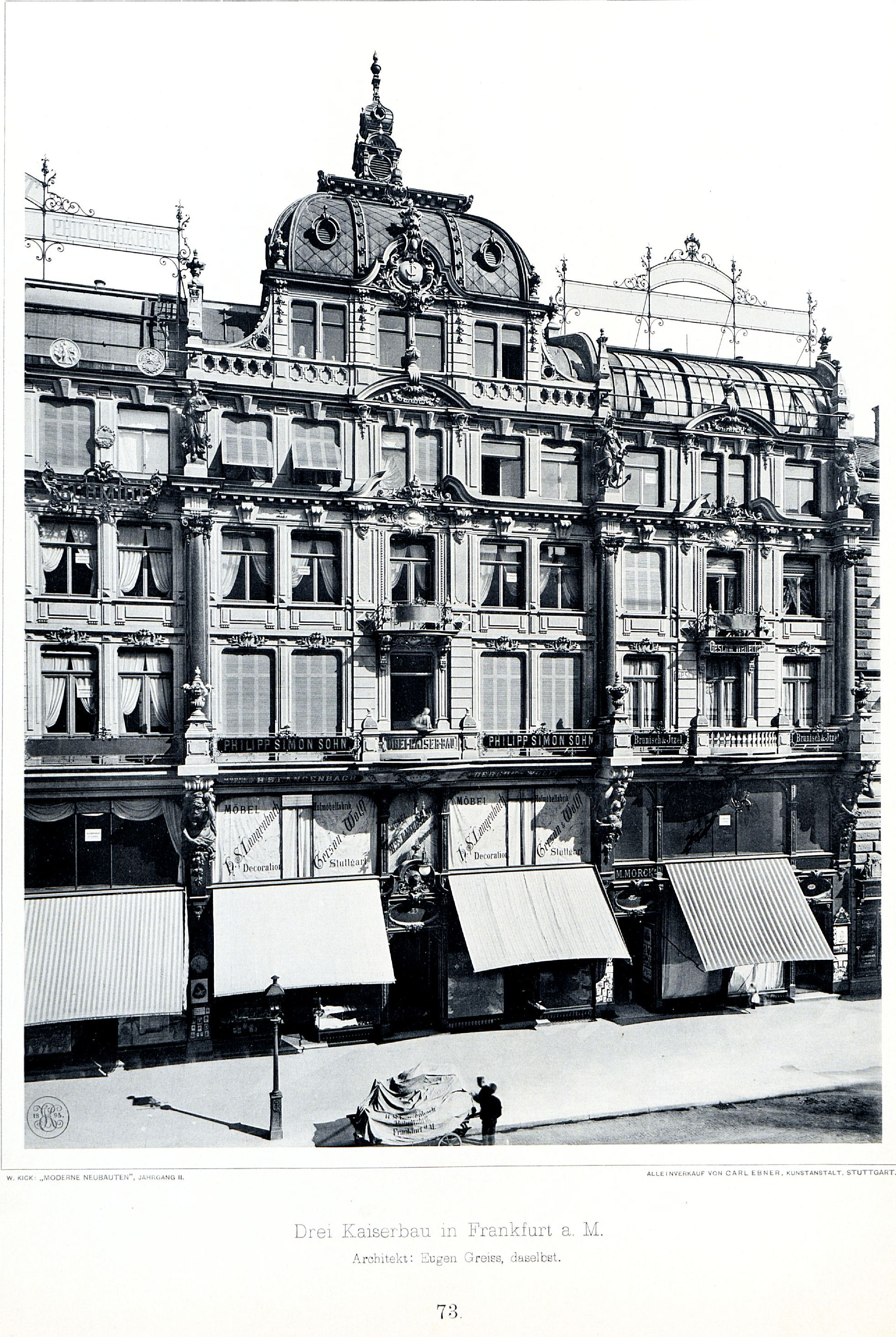 Drei_Kaiserbau_in_Frankfurt_am_Main,_Architekt Eugen Greiß (1856-1925),_Frankfurt,_Tafel_73,_Kick_Jahrgang_II.jpg